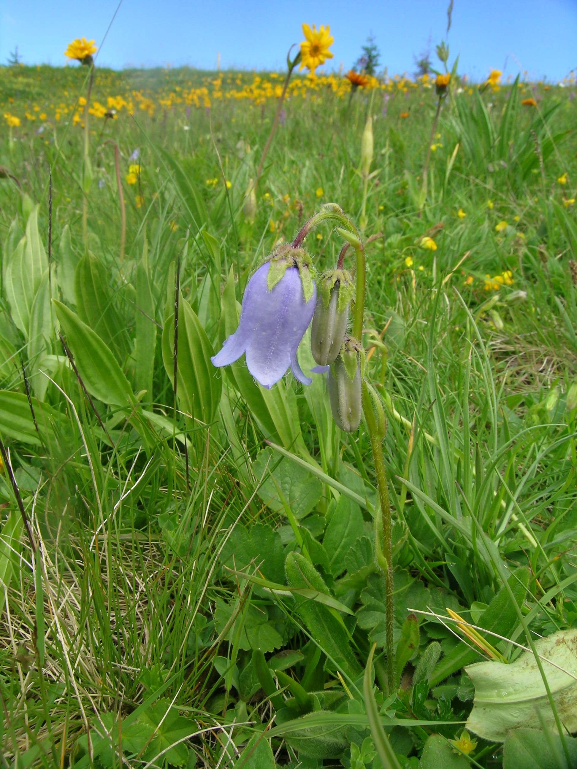 Campanula barbata (Arnica montana behind), Schynige Platte (Kt. Bern, Switzerland, 2050 m. ü. M)